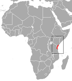 Hildegarde's Tomb Bat (Taphozous hildegardeae) range